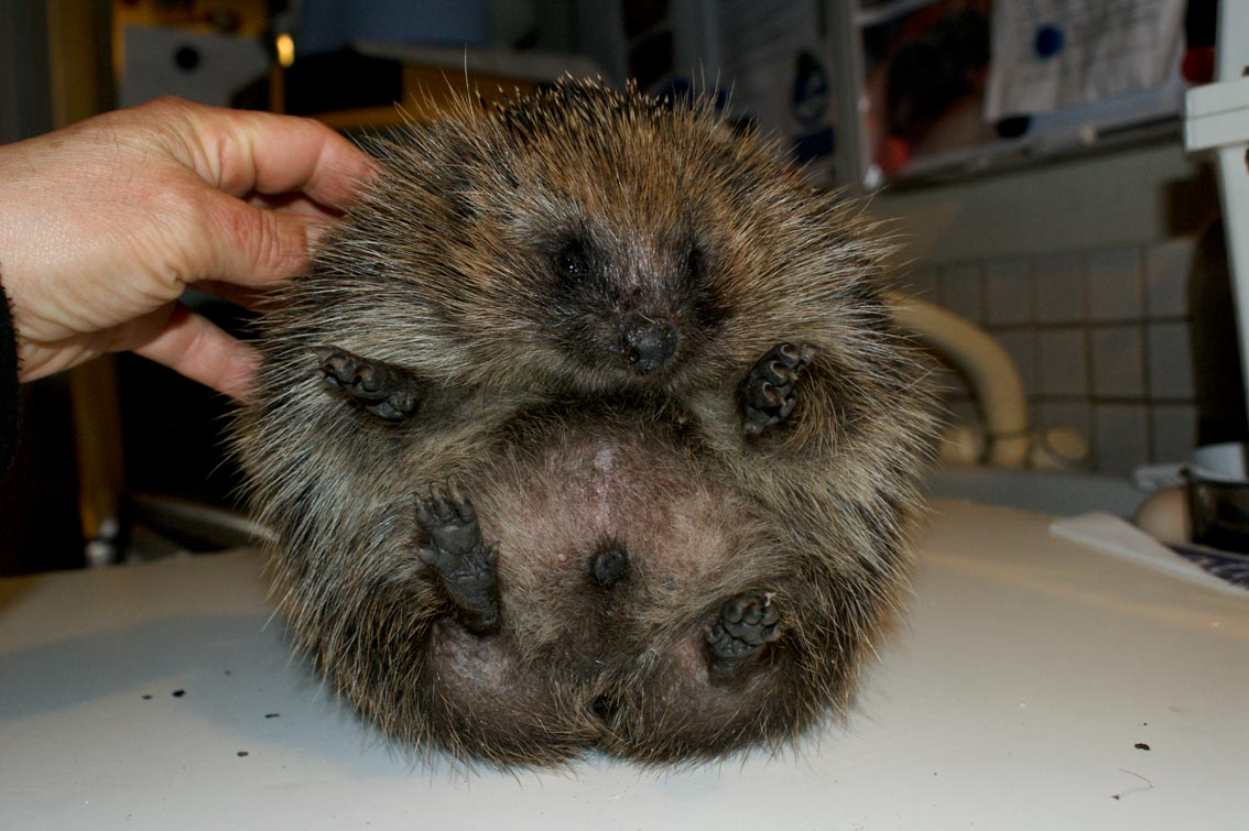 Hedgehog suffering from Balloony before deflating